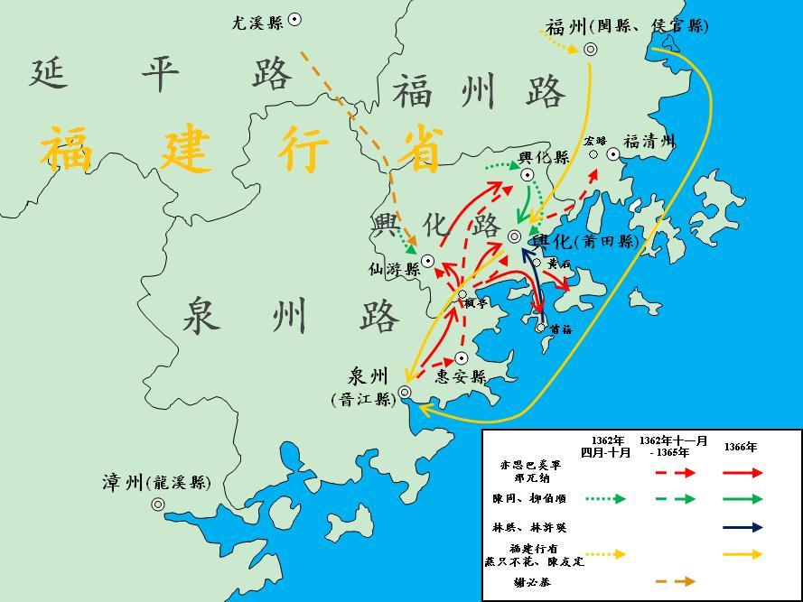 A map of the Islamic Ispah Rebellion (stage 2) in Fujian, 1362-1366 — during the Yuan Dynasty.